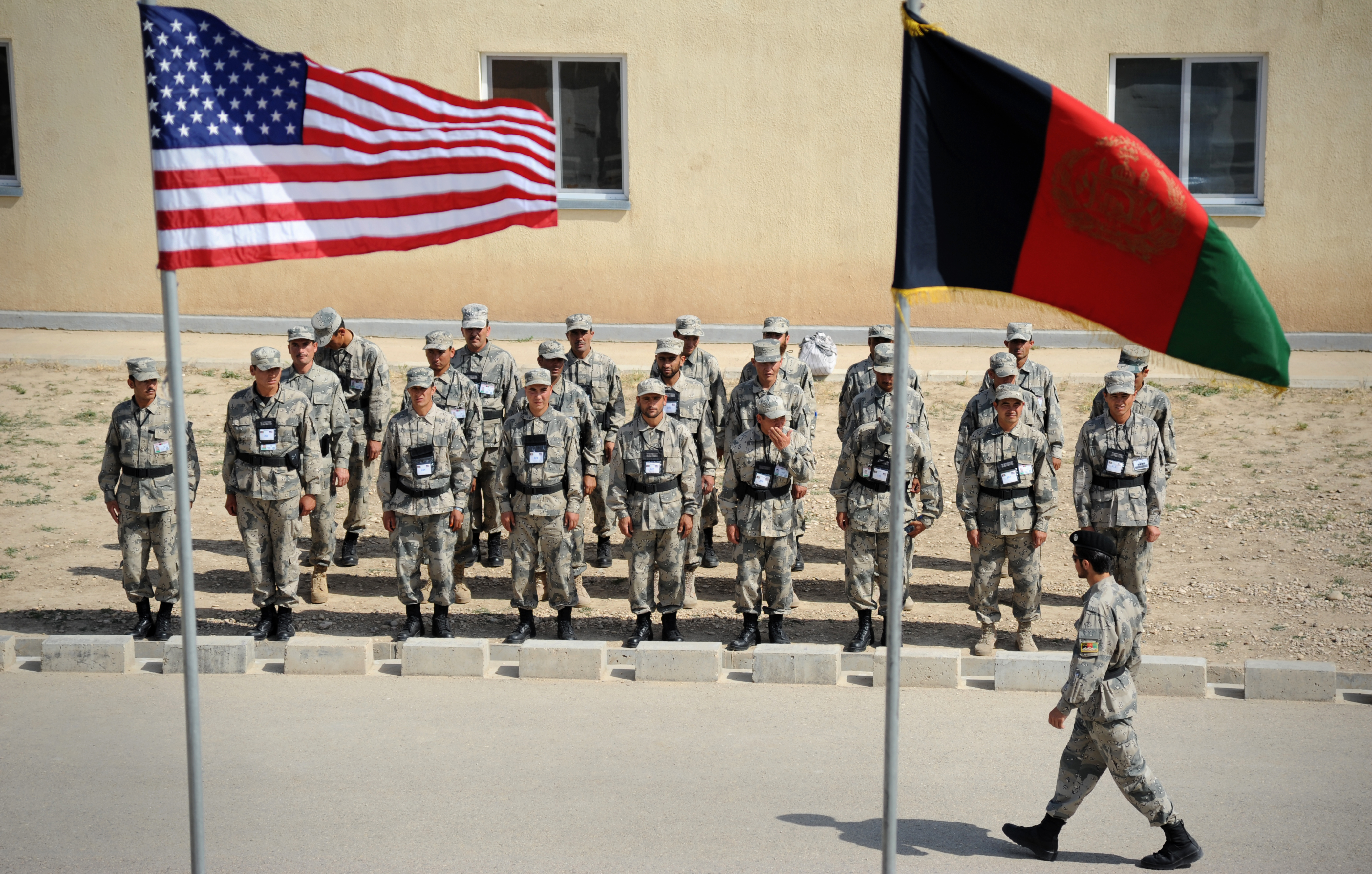 CAMP MIKE SPANN, Afghanistan -- A platoon of Afghan Border Police wait for their graduation ceremony to begin at Regional Training Center Sheberghan, Jowzjan, May 17. The class of 122 ABP was the last class to graduate from the RTC with international mentors assisting Afghan Instructors. NATO Training Mission Afghanistan will be transferring RTC Sheberghan to Afghan National Security Forces later this year.